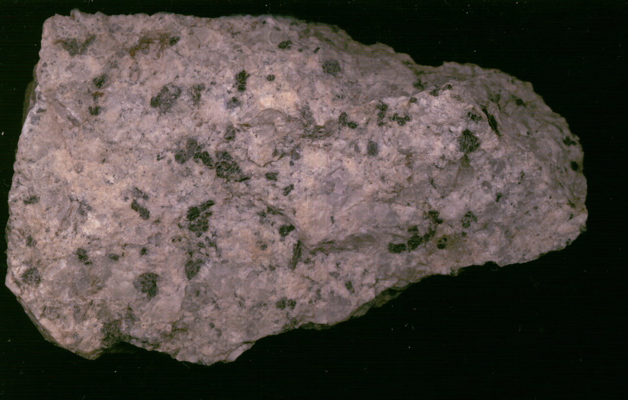 Shannons Flat Adamellite from ACT Australia